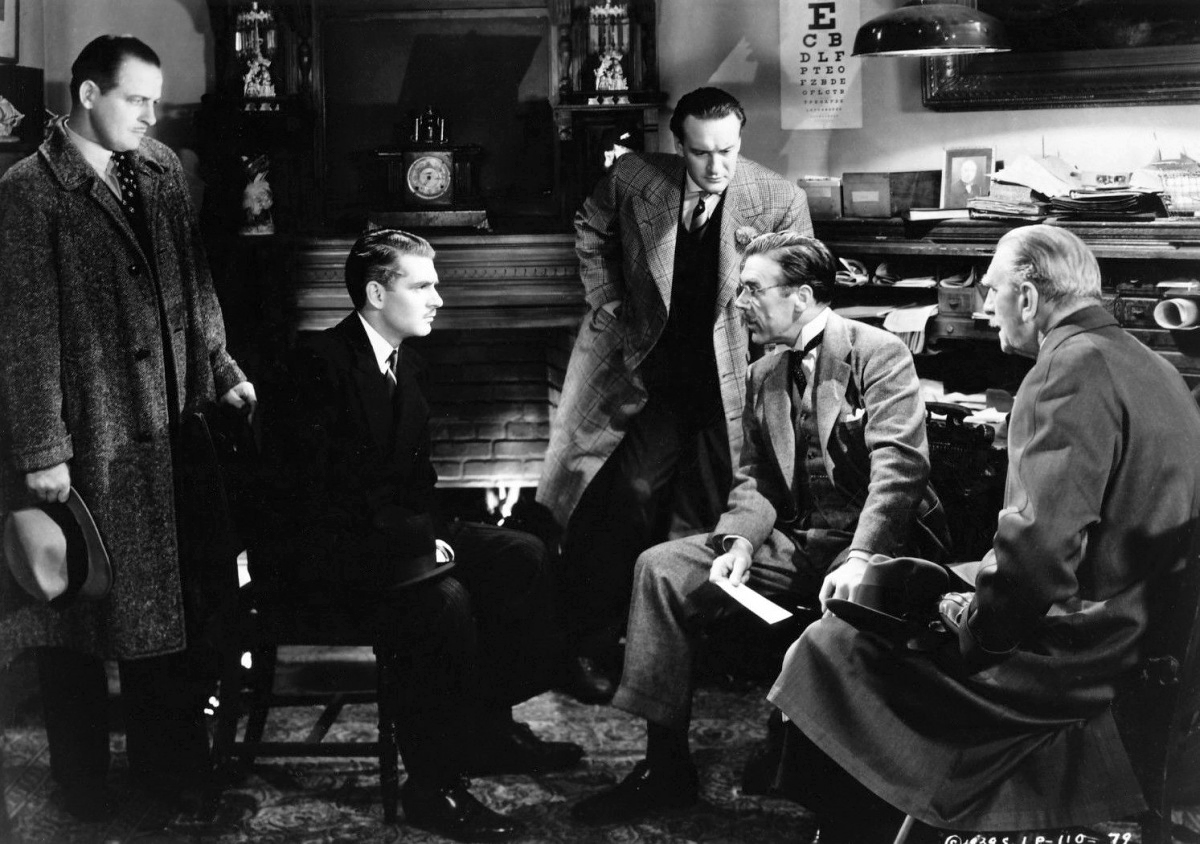 Promotional photograph of (from left) Reginald Denny, Laurence Olivier, George Sanders, Leo G. Carroll and C. Aubrey Smith in the film Rebecca